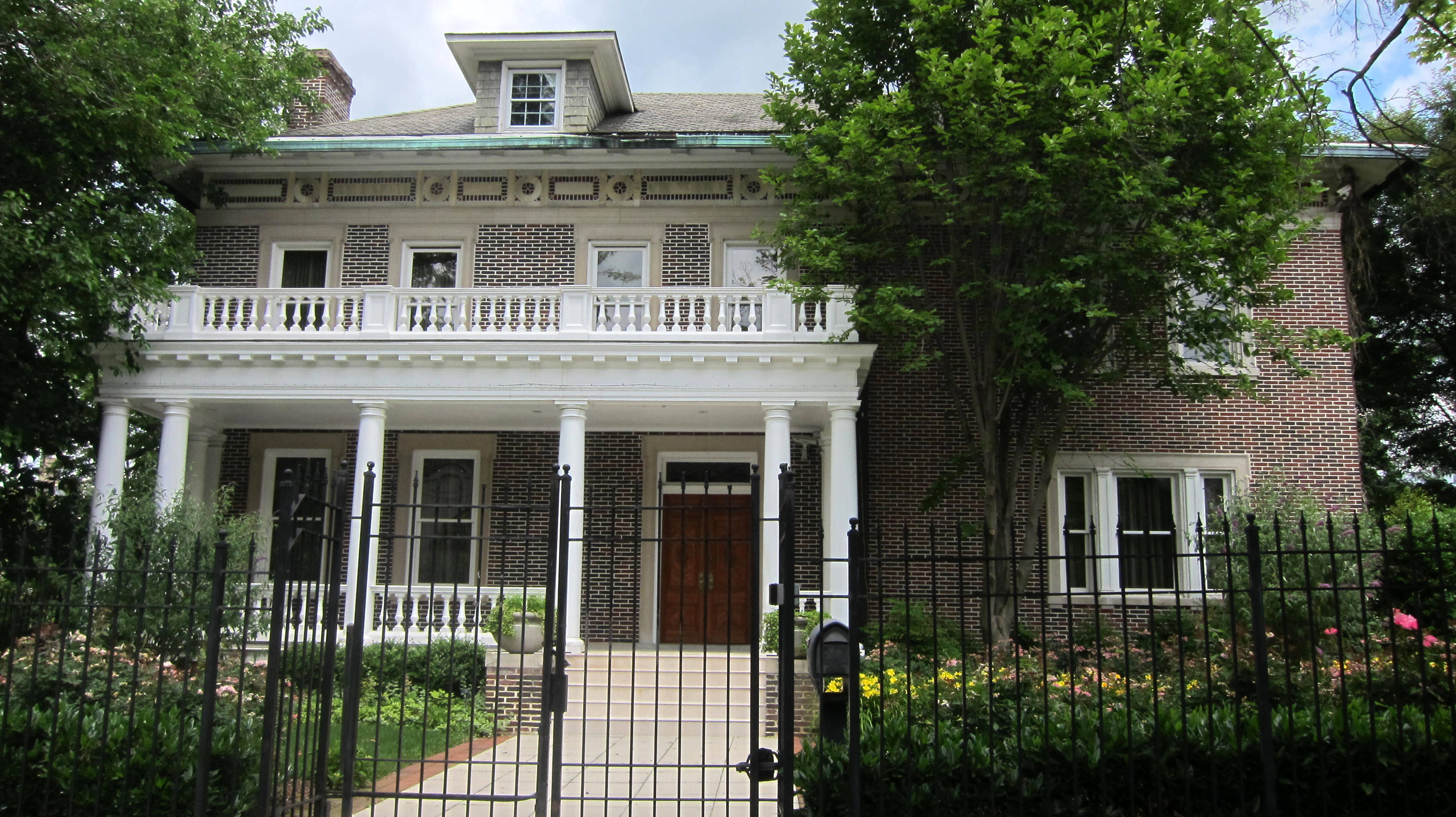 The Ethiopian ambassador's residence located at 2209 Wyoming Avenue, N.W., in the Sheridan-Kalorama neighborhood of Washington, D.C. Built around 1929, the Colonial Revival-style building is designated as a contributing property to the Sheridan-Kalorama Historic District, listed on the National Register of Historic Places in 1989. The building previously served as the Dutch ambassador's residence and the Embassy of Ethiopia.